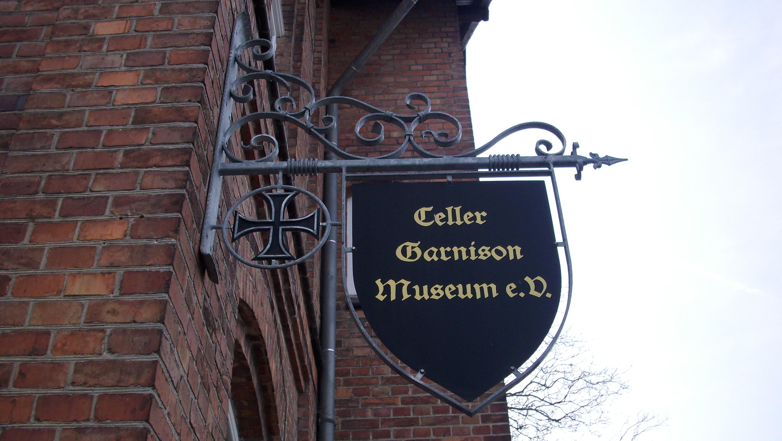 sign plate of the Garrison Museum in Celle, Germany